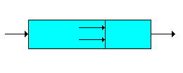 Plug Flow reactor.